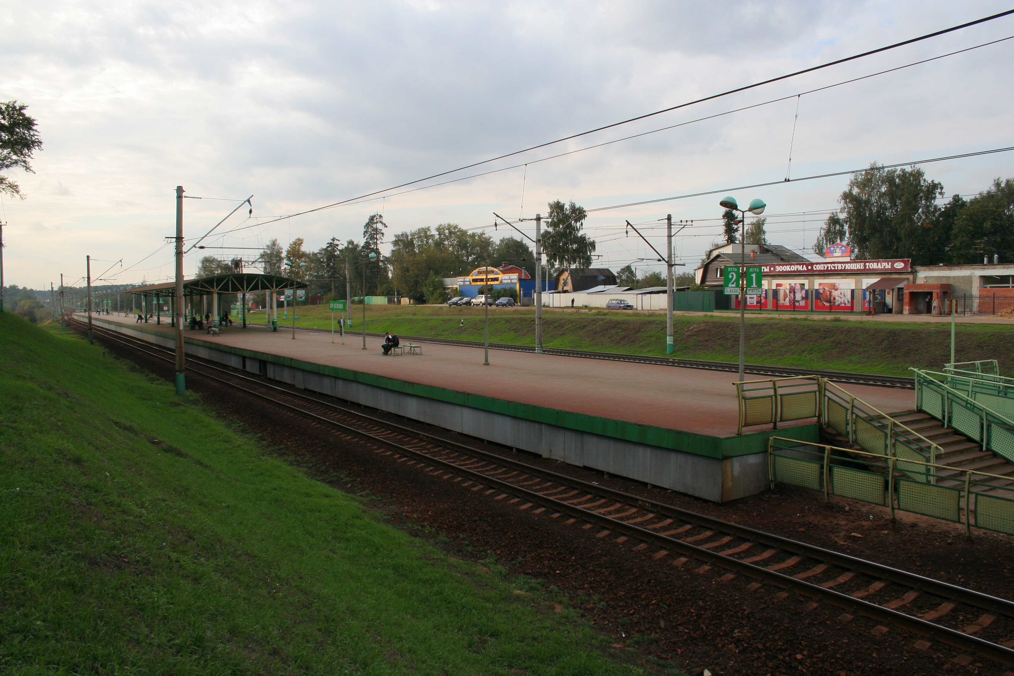 Train stop Kraskovo in Moscow Oblast